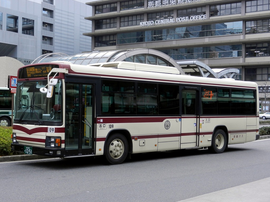 Kyoto bus Hino Blue Ribbon II onestep bus (PJ-KV234N1)